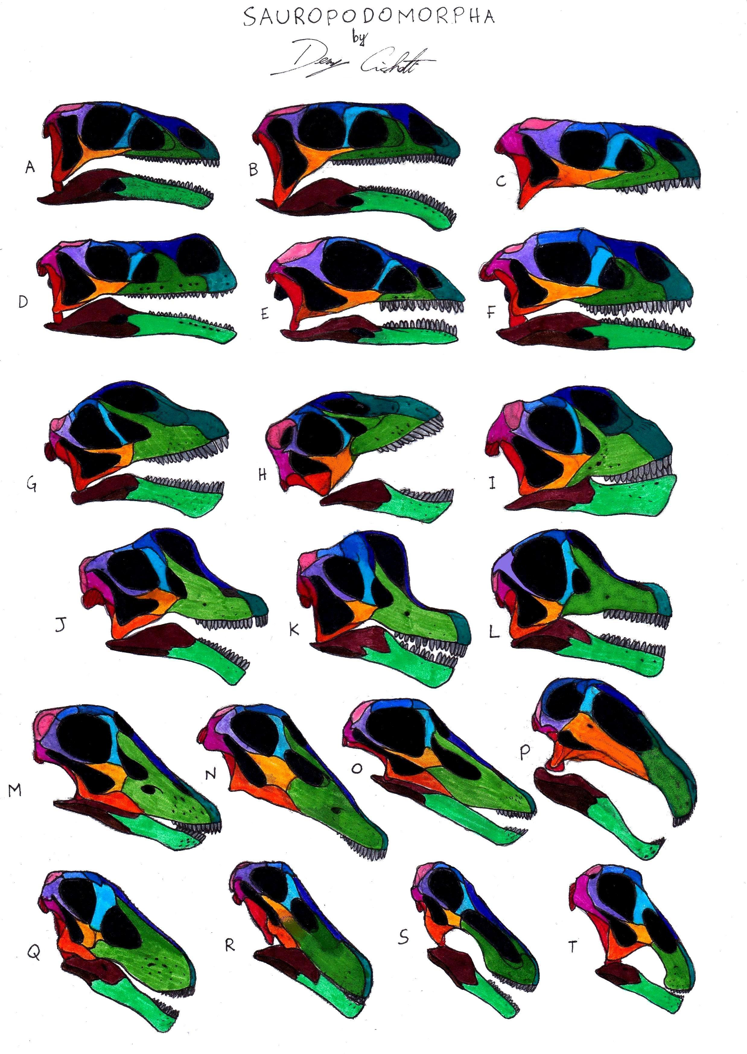 A = Efraasia B = Plateosaurus C = Lufengosaurus D = Aardonyx E = Anchisaurus F = Massospondylus G = Omeisaurus H = Euhelopus I = Camarasaurus J = Brachiosaurus K = Giraffatitan L = Abydosaurus M = Diplodocus N = Apatosaurus O = Kaatedocus P = Nigersaurus Q = Nemegtosaurus R = Quaesitosaurus S = Rapetosaurus T = Bonitasaura